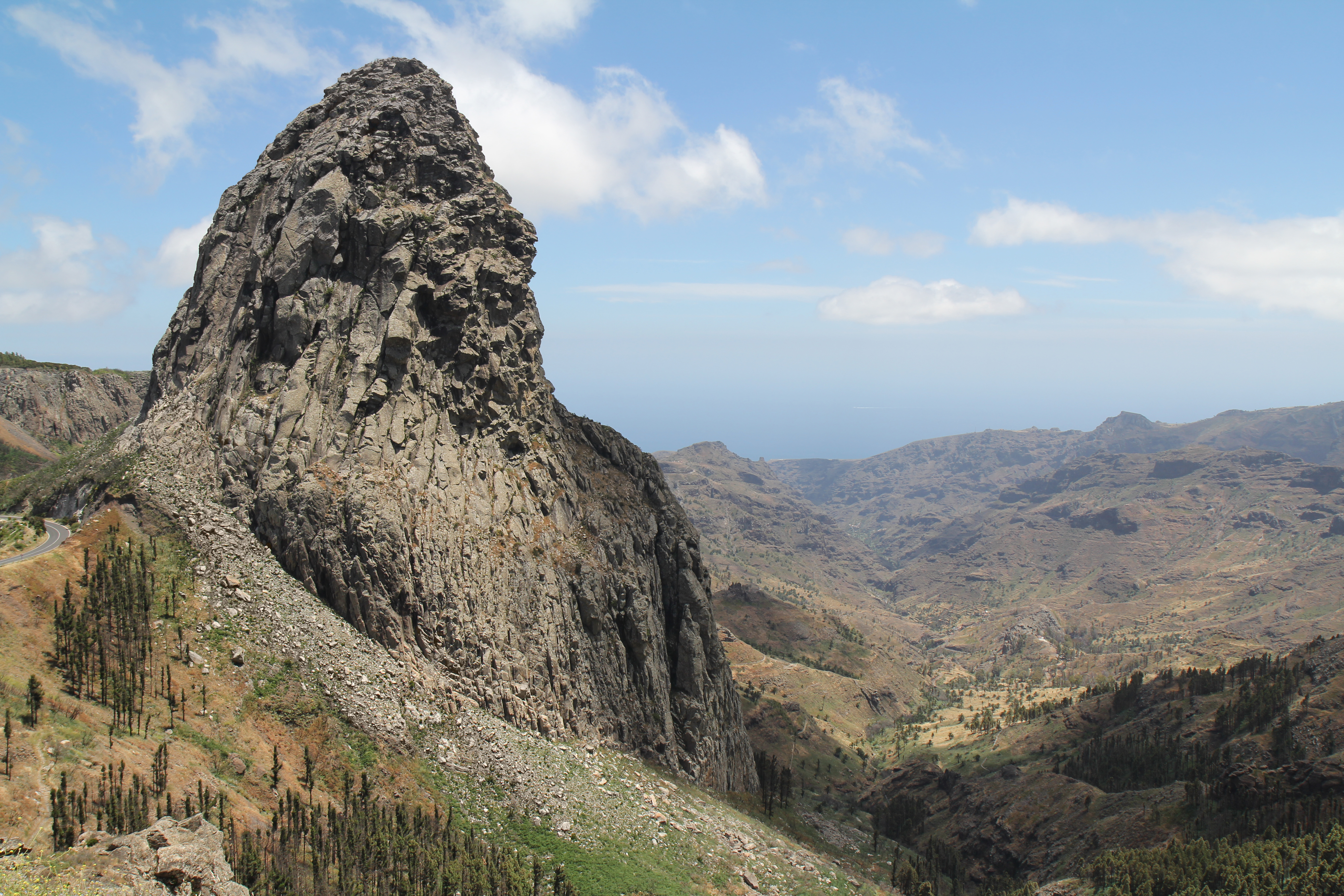 Roque de Agando, La Gomera